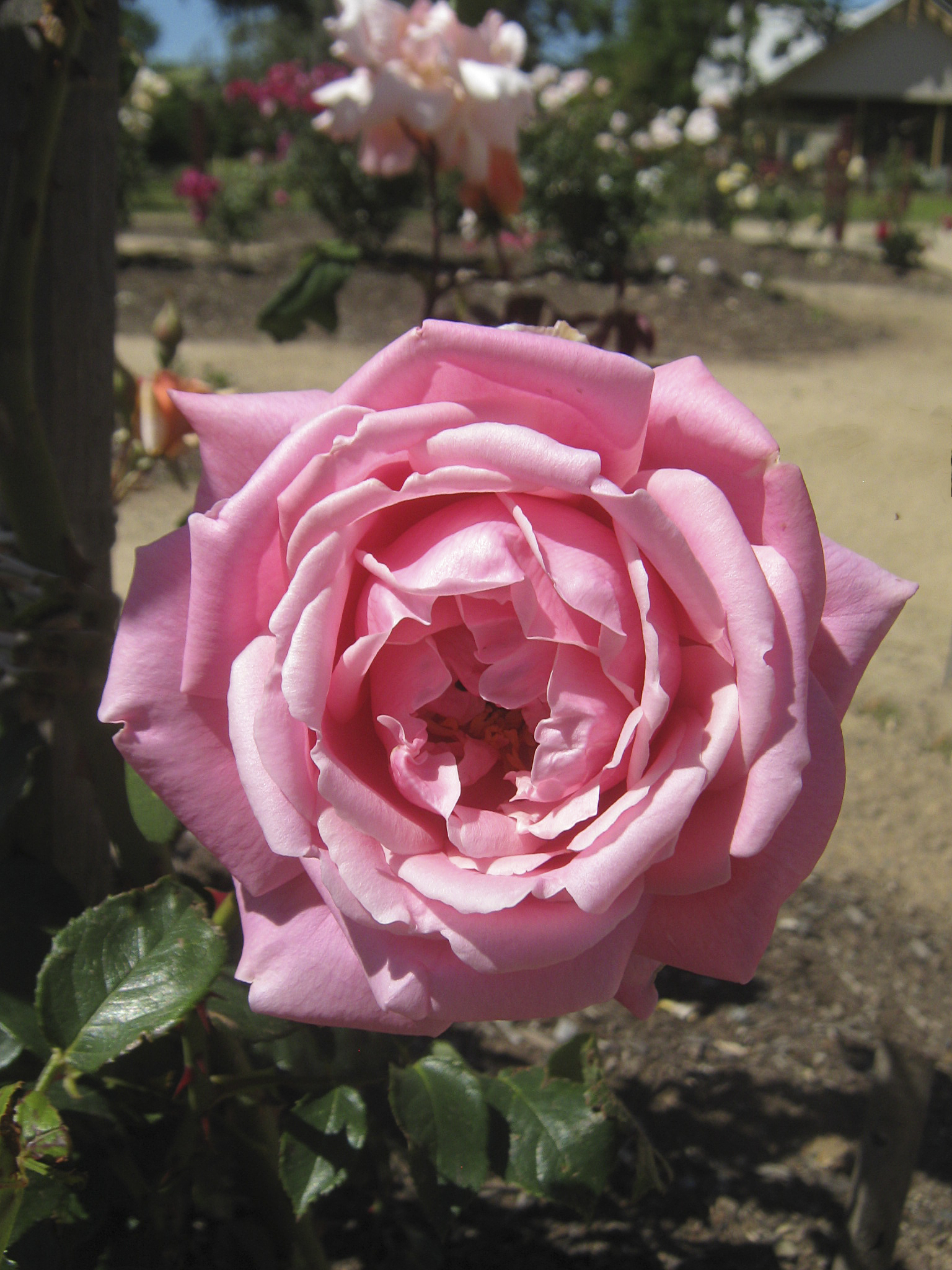 Rose 'Lady Woodward', Hybrid Tea by Frank Riethmuller 1959; Photographed in Nieuwesteeg Heritage Rose Garden, Maddingley Park, Bacchus Marsh, Victoria